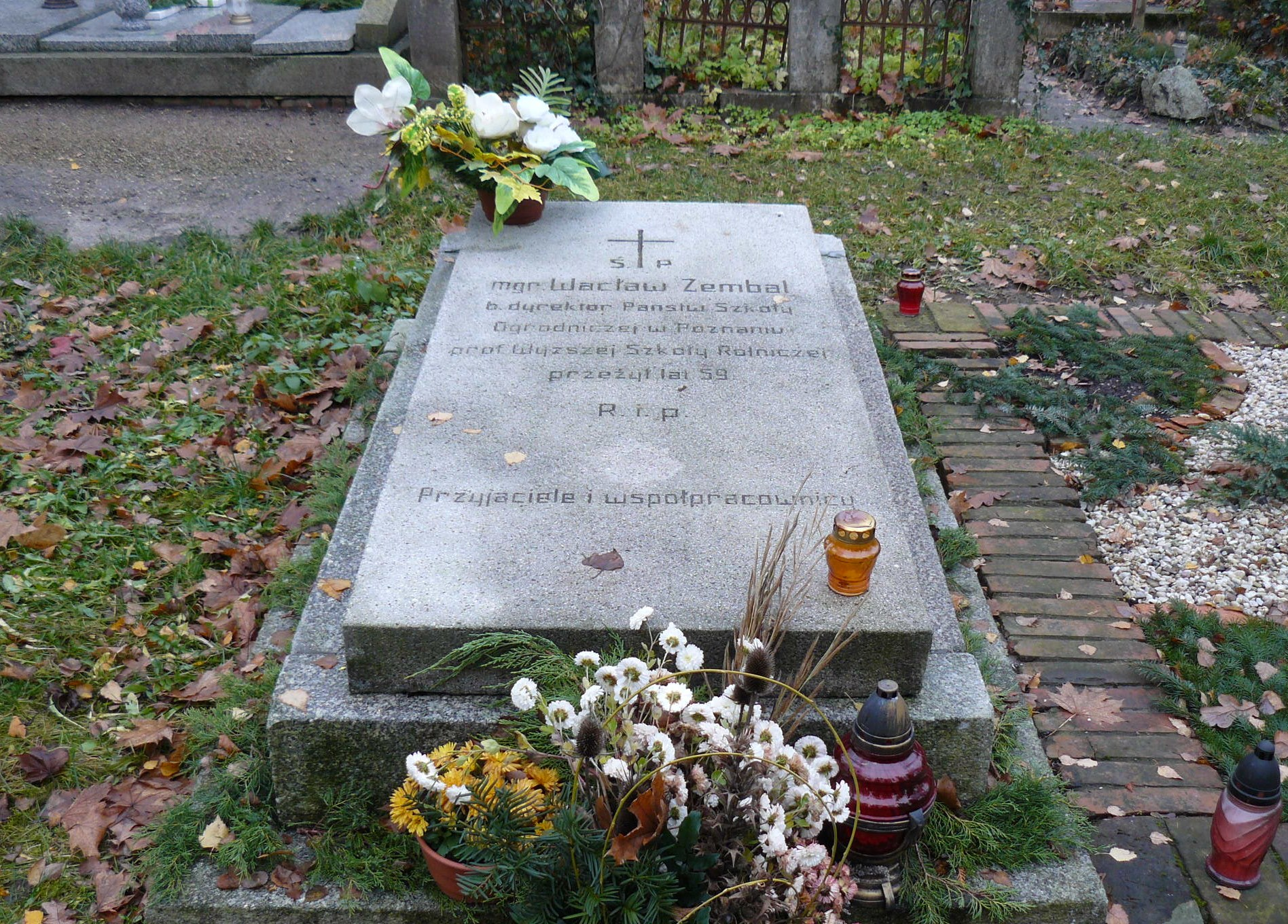 Waclaw Zembal Tomb, Poznan.